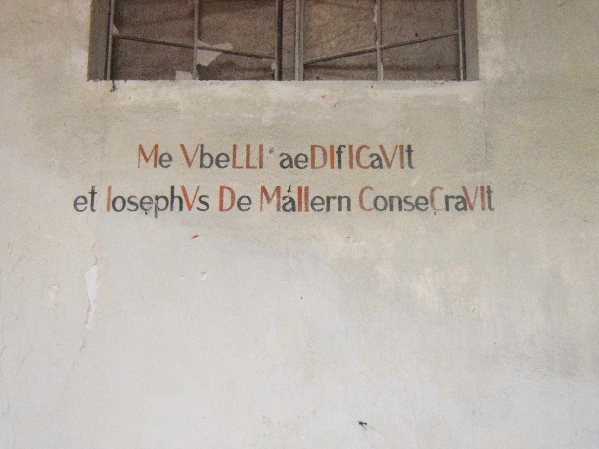 Koleč Chateau, Kladno District, Czech Republic. Latin inscription on inner wall of the Holy Trinity Chapel commemorating its construction and consecration in 1714-1715.